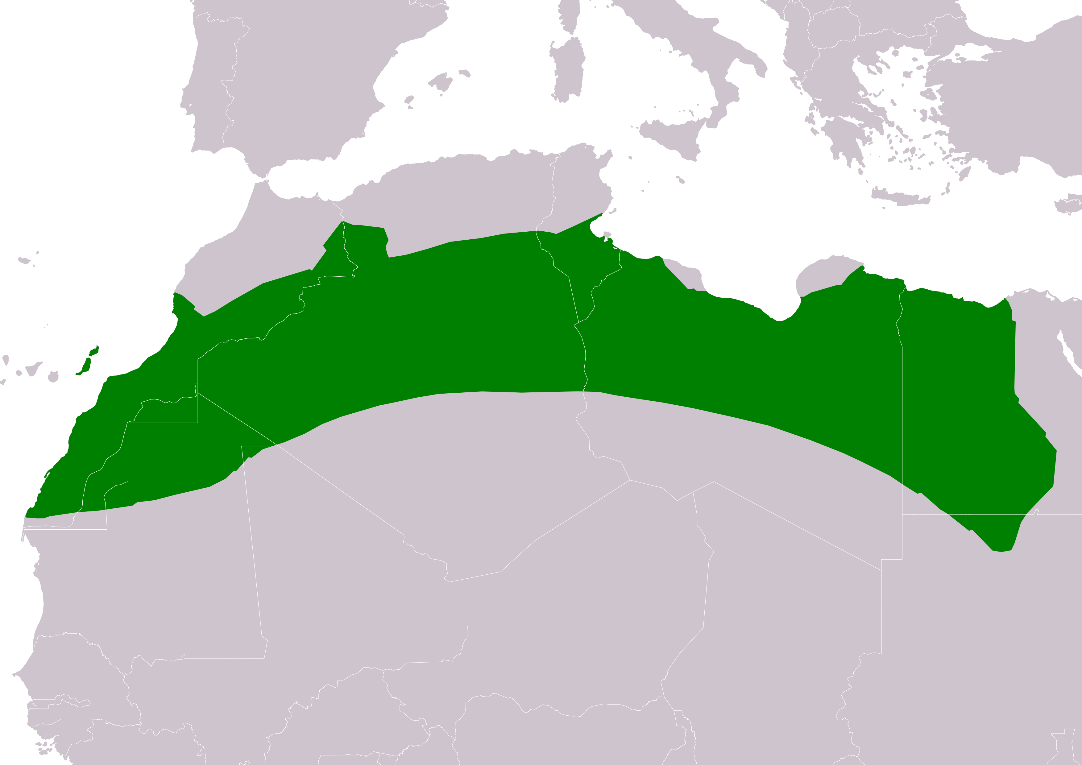 Distribution map of african houbara (Chlamydotis undulata) according to IUCN version 2019-2 ; key: Legend: Extant, resident (#008000)